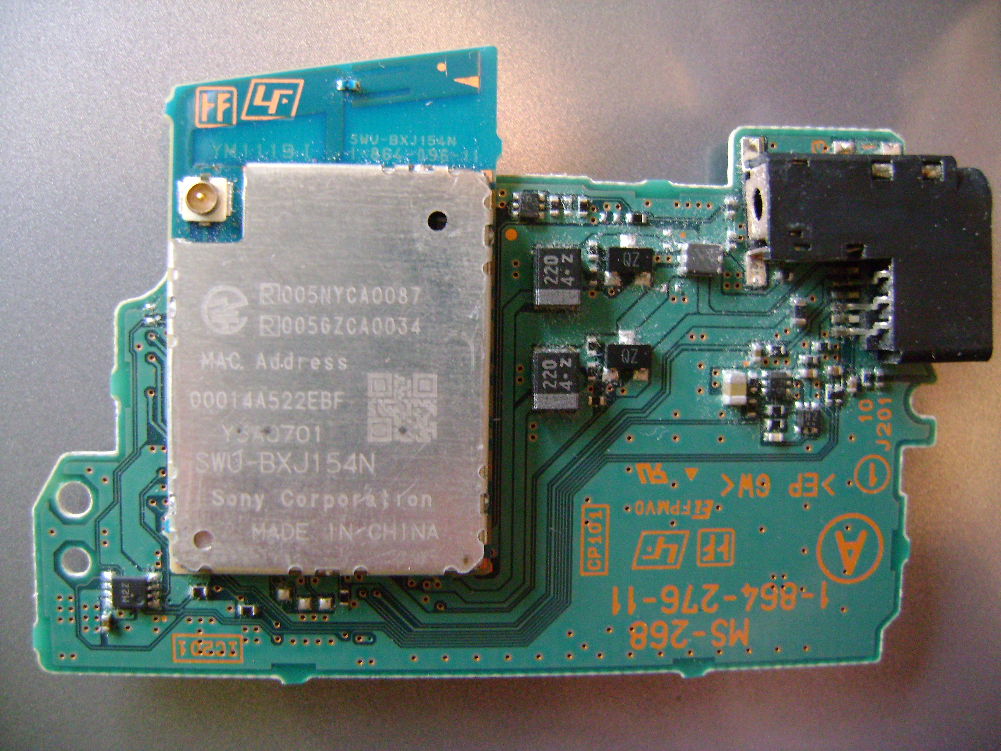 Photograph of the PSP WiFi module on a TA-079 main board.